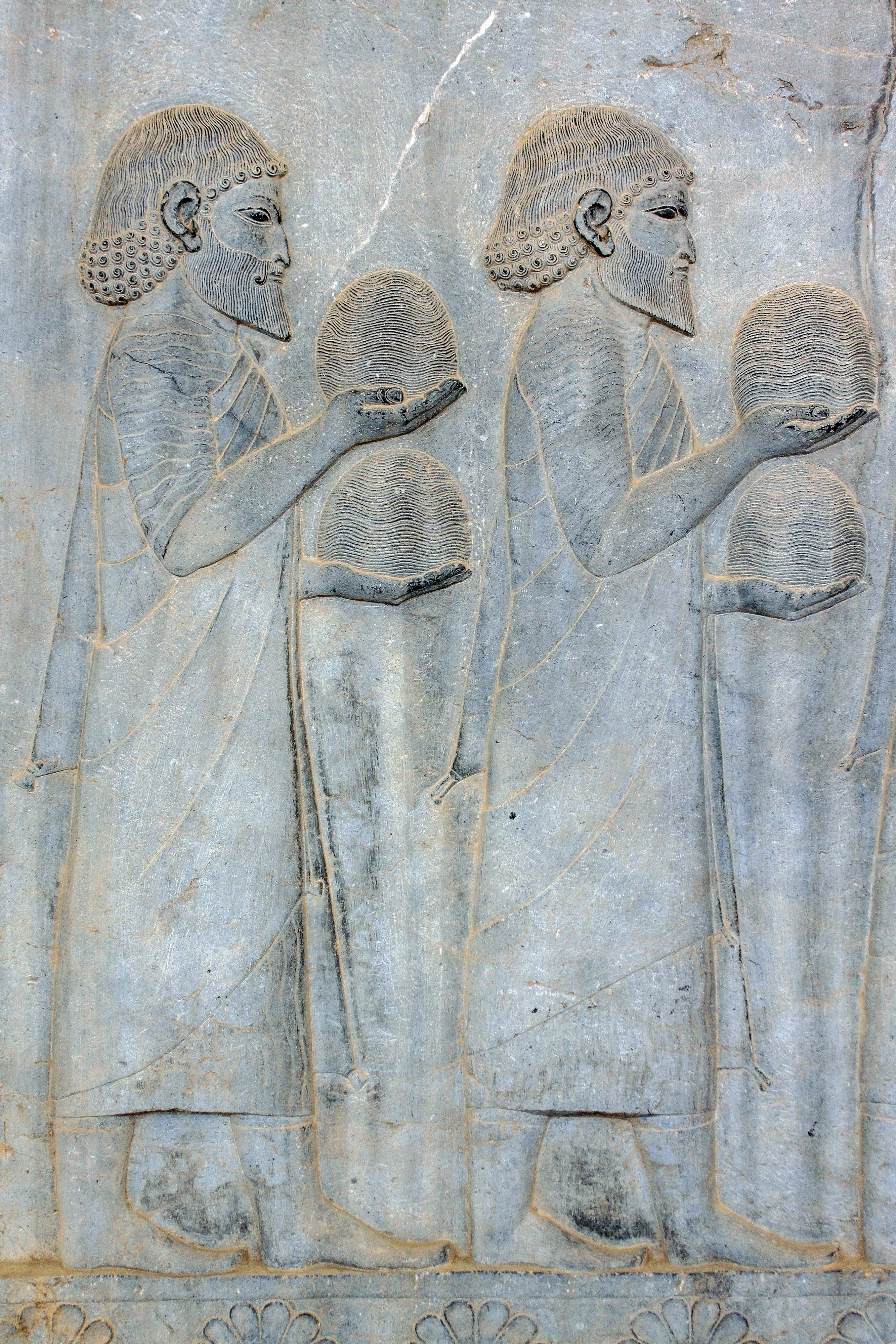 Persepolis was the ceremonial capital of the Achaemenid Empire (ca. 550–330 BC). It is situated 60 km northeast of the city of Shiraz in Fars Province, Iran.